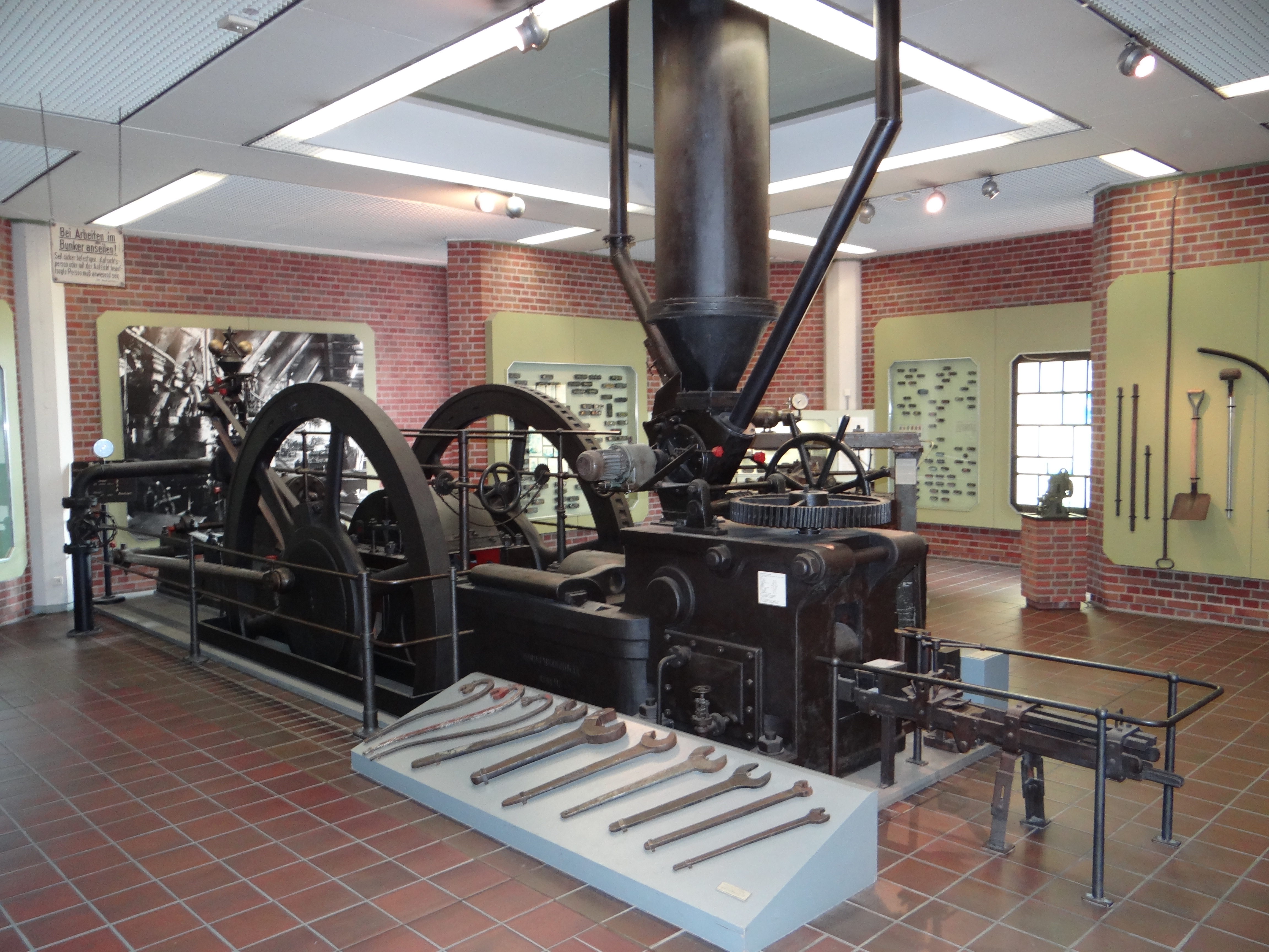 Deutsches Bergbau-Museum (German Mining Museum) Bochum. Coal briquetting